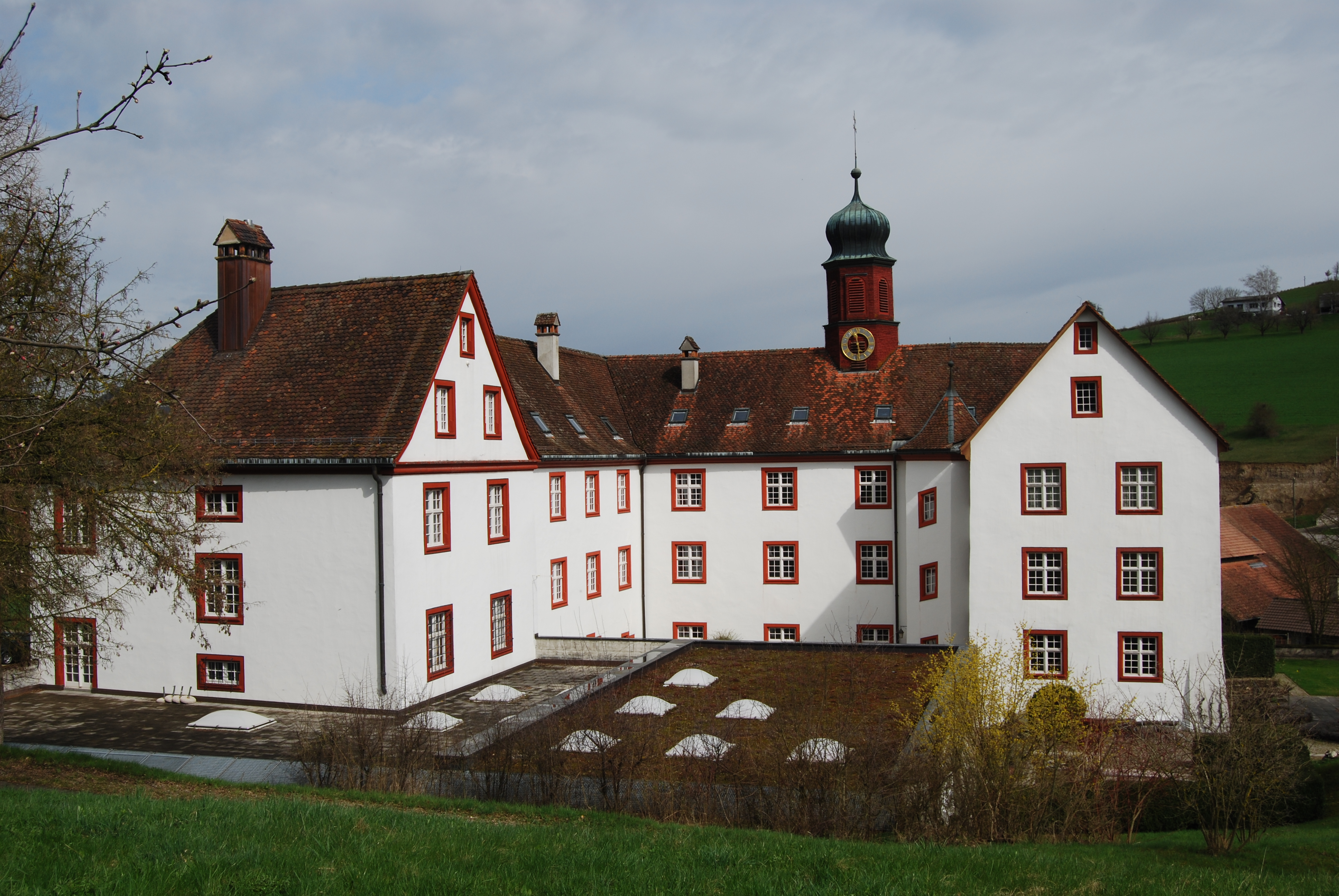 Abbey of Wislikofen, canton of Aargau, SwitzerlandEsperanto: Abatejo Wislikofen, Kantono Argovio, Svislando